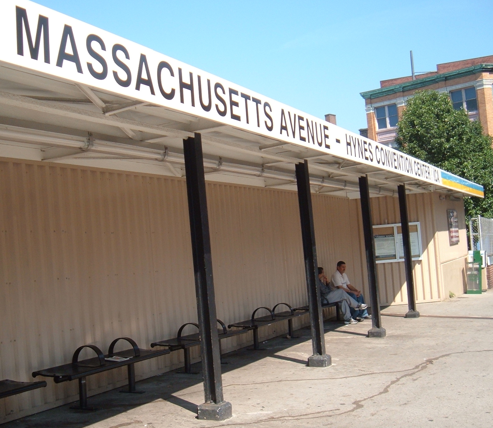 Bus shelter on Massachusetts Avenue at Hynes Convention Center Green Line station in Boston.